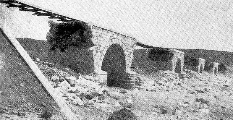 Photo of railway bridge at Asluj blown up on 23 May 1917 by the Egyptian Expeditionary Force.